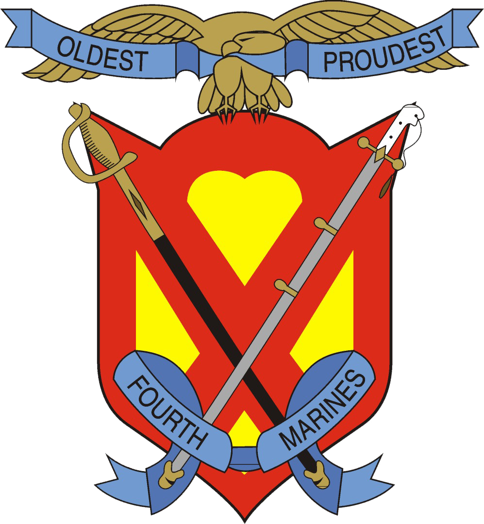 Unit logo for 4th Marine Regiment.